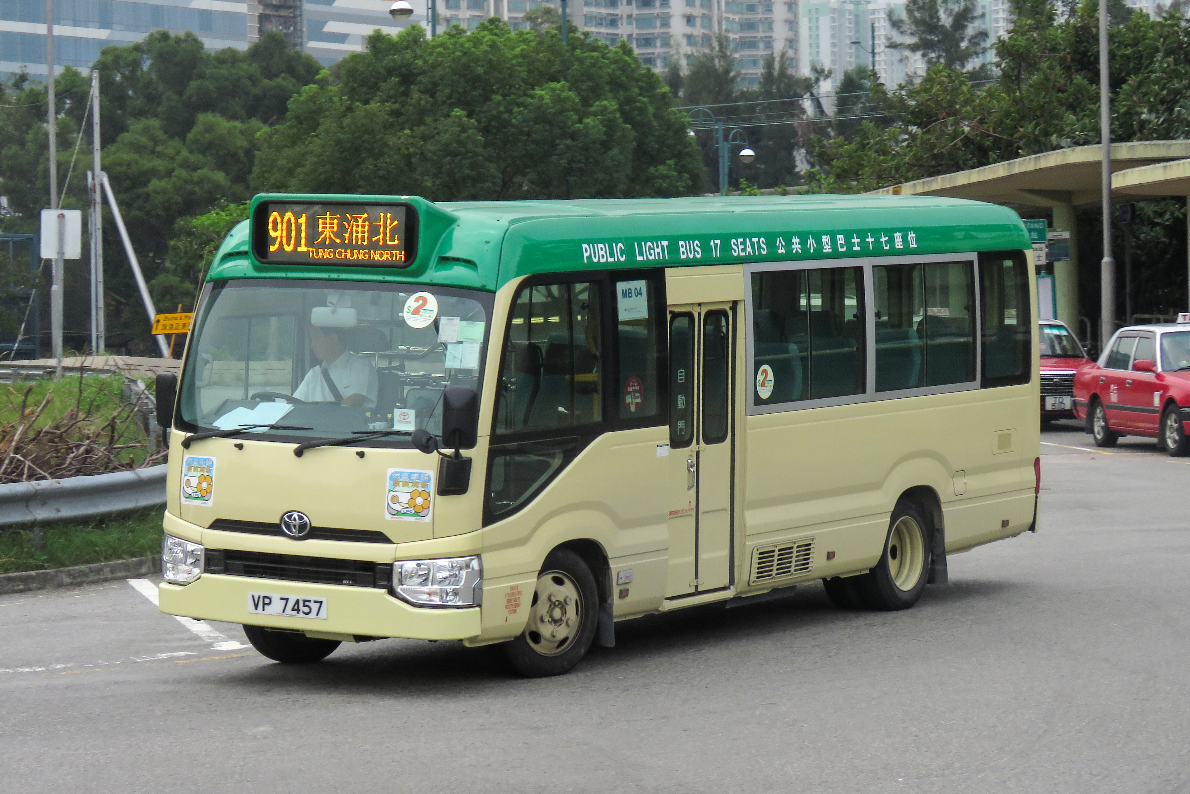 MB04... fleet number? But it skipped the pier again...